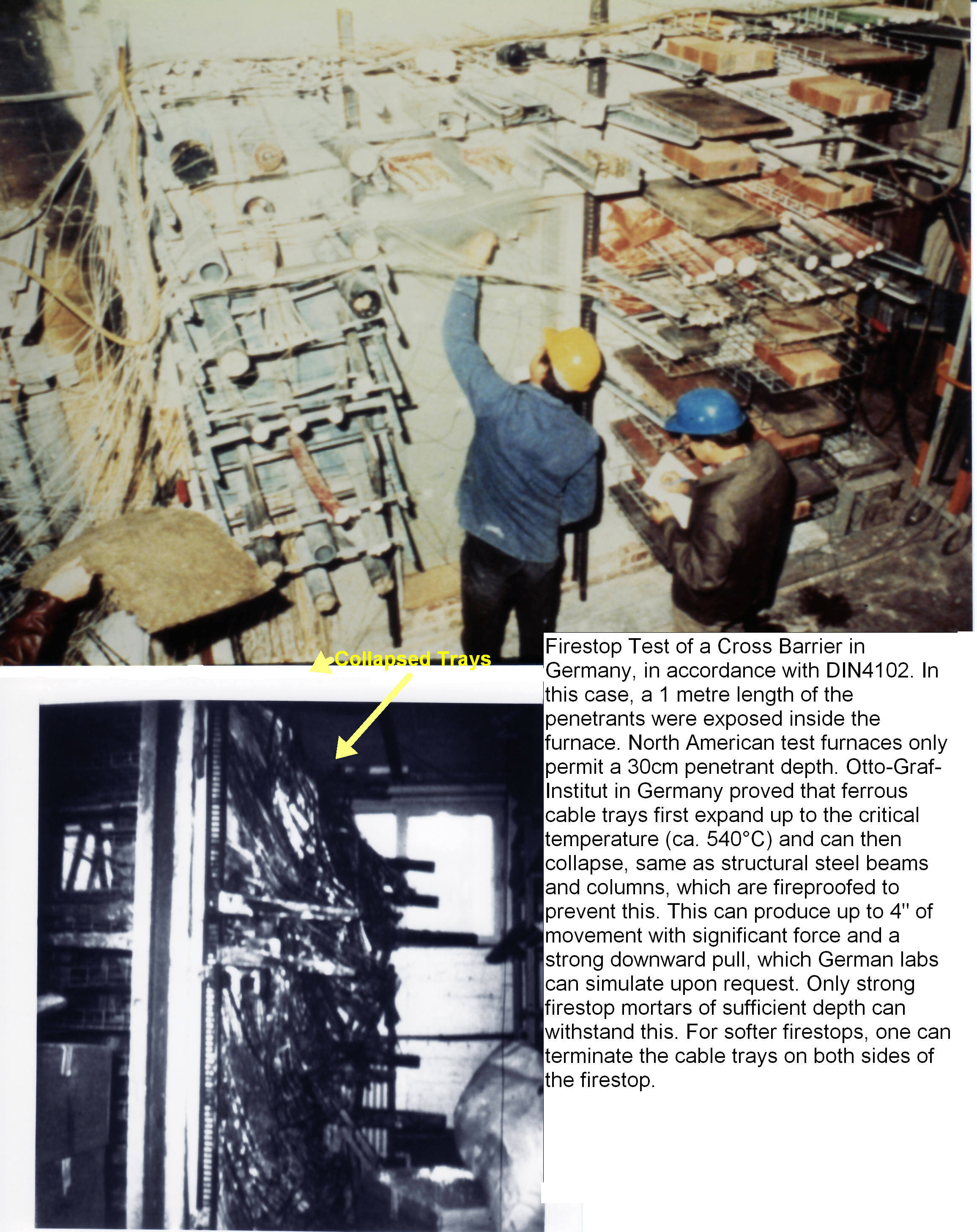 Cable tray cross barrier fire test per DIN4102